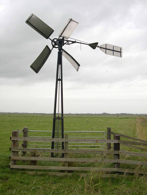 Modern Windpump 1 One of several small windpumps all of a similar design built locally in the last few years serving the Halvergate Marshes area.